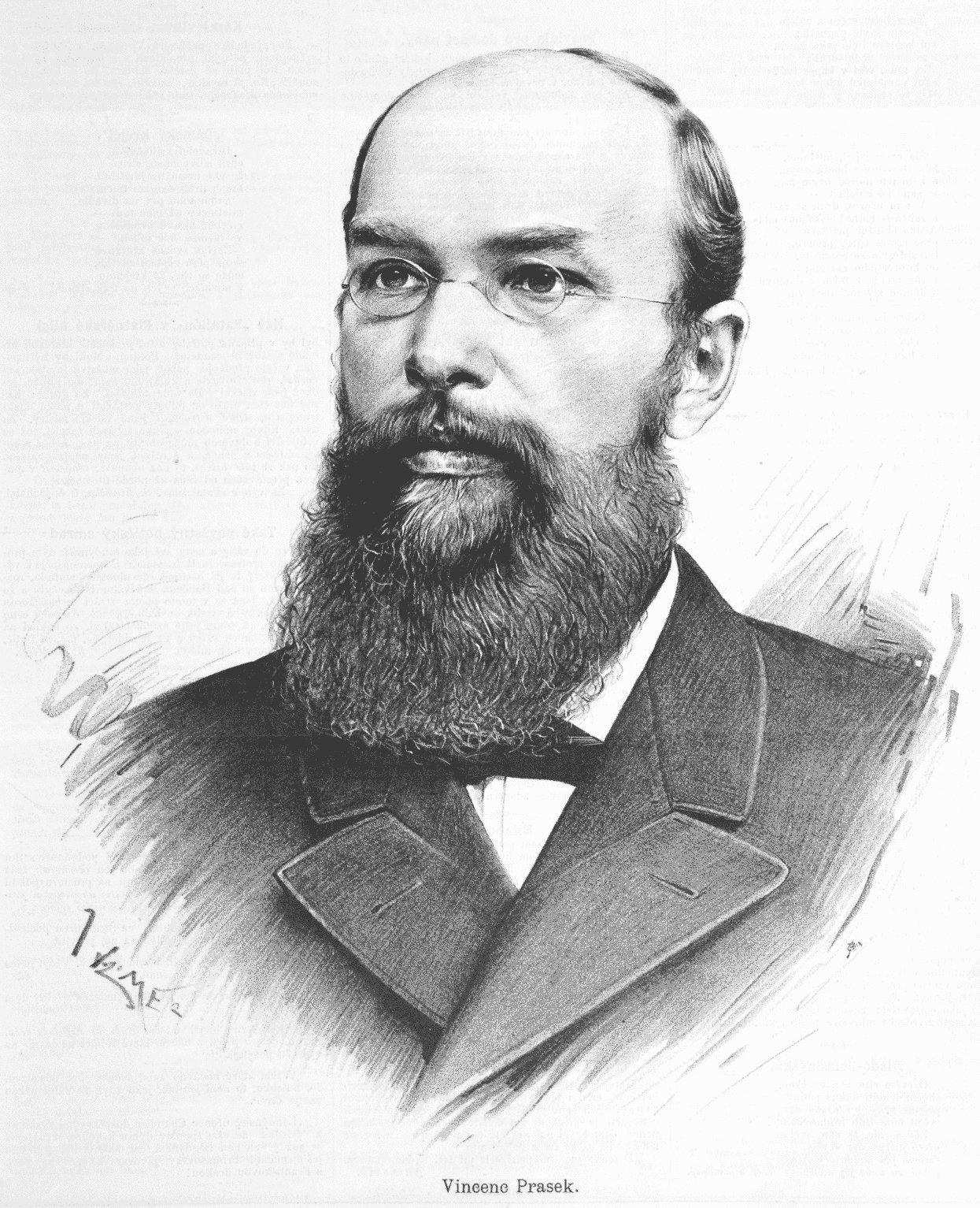 Portrait of Vincenc Prasek, Czech patriot in Austrian Silesia.